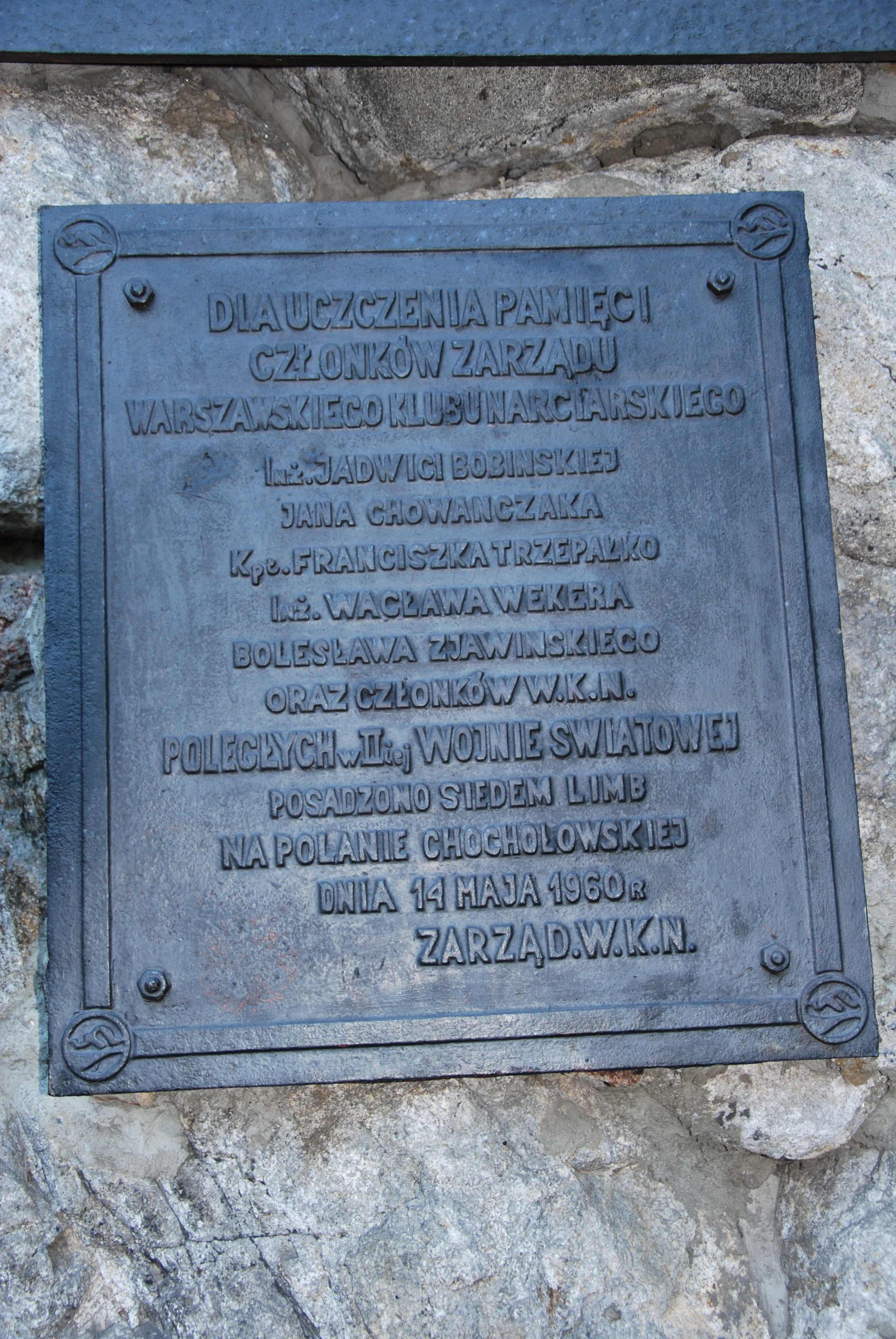 Plaque Warsaw Ski Club, Chocholowska Refugee